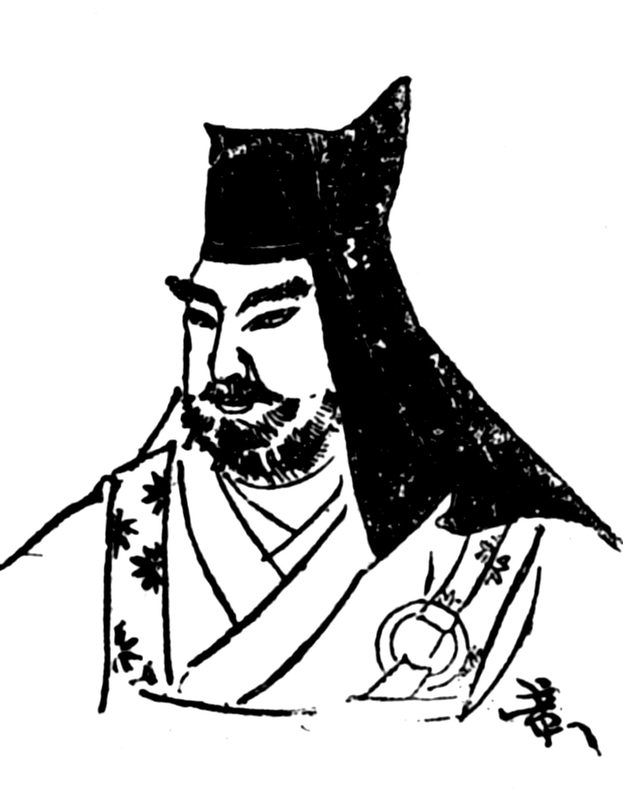 Portrai of Uesugi Kenshin